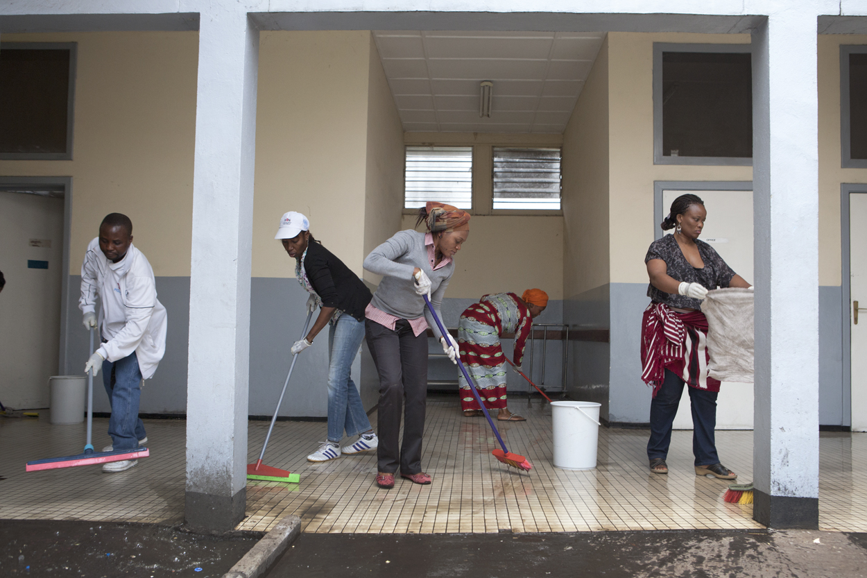 MONUSCO staff clean a section of Goma General Hospital to commemorate Nelson Mandela on the 18th of July 2012. The 18th of July has been recognized as Nelson Mandela day by the United Nations. © MONUSCO/Sylvain Liechti